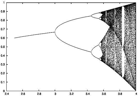 Made by Romero Schmidtke